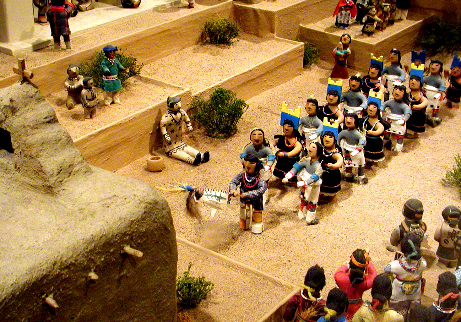 Folk art display in the Museum of International Folk Art, Santa Fe, N.M., U.S.A.